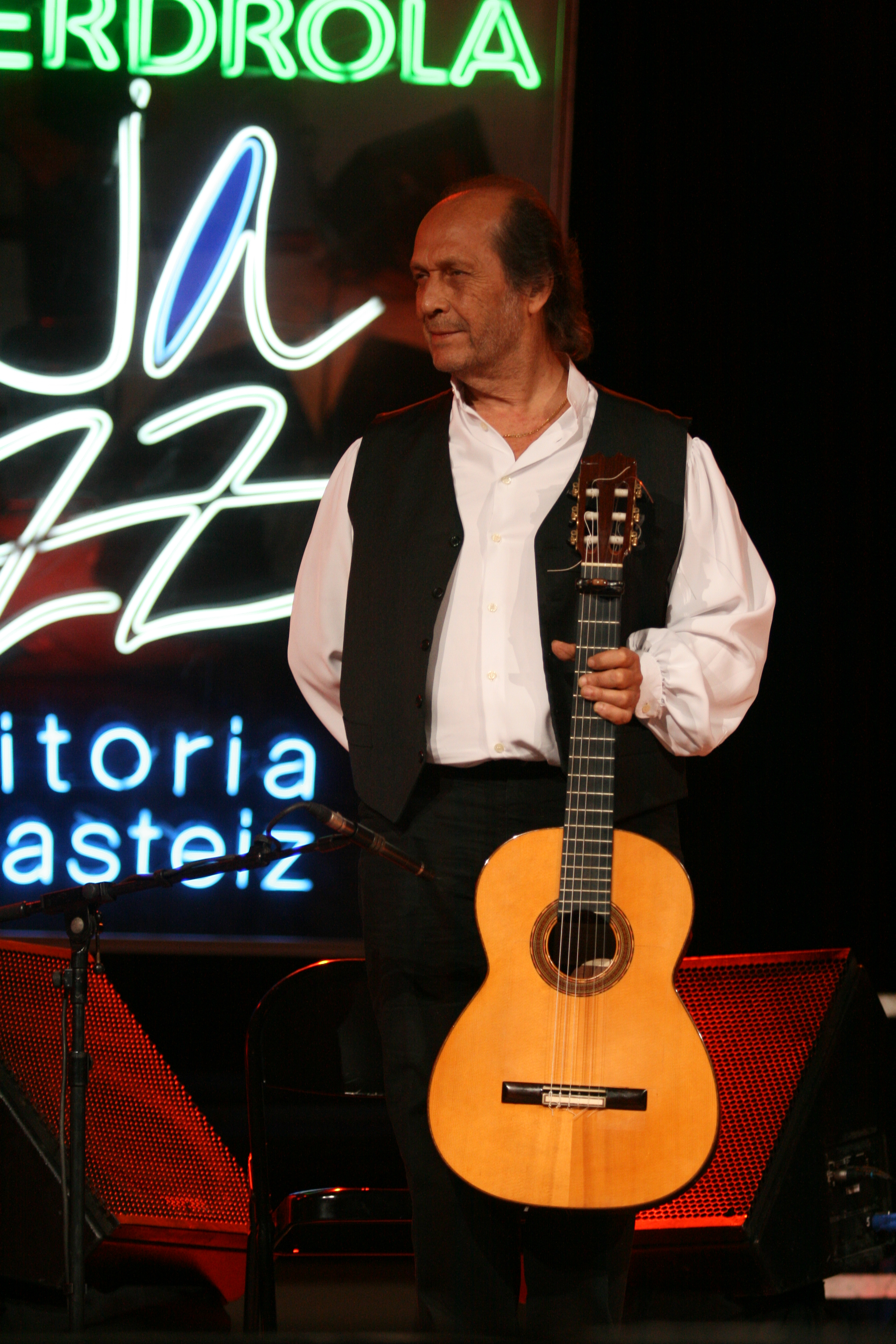 Paco de Lucia at the Vito Jazz Festival in July 2010.